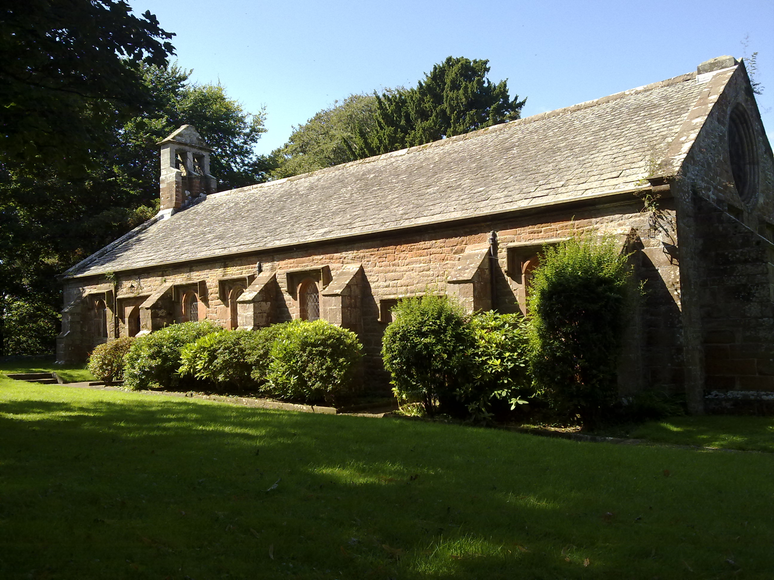 St Wilfrid's chapel, Brougham, Cumbria (formerly Westmorland), seen from the southeast